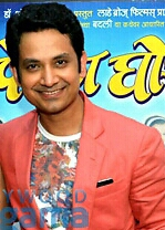 Umesh Kamat at Audio release of PG